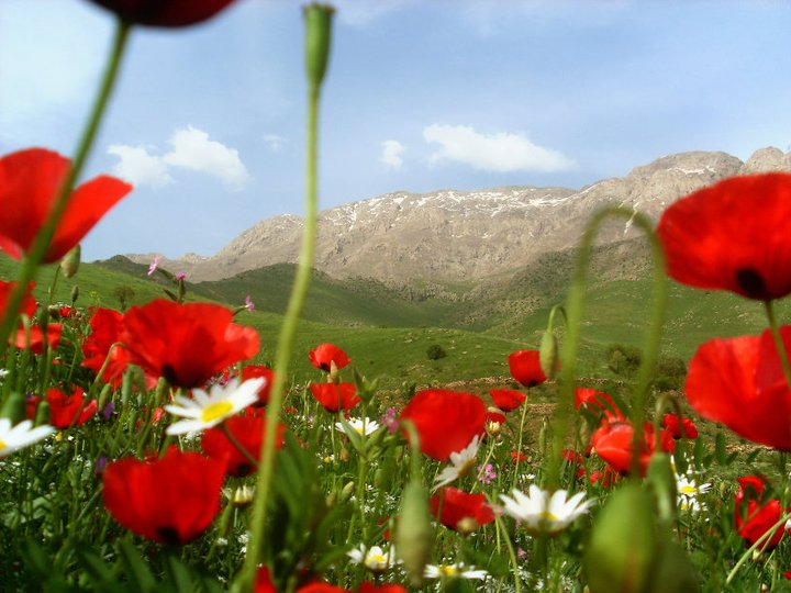 Nature Paveh - Kermanshah - Iran